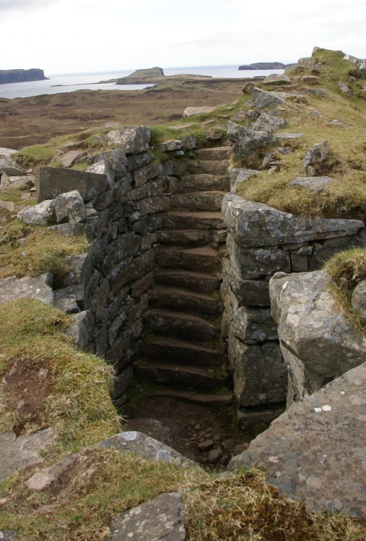 Dun Beag, Skye, Scotland - stairs in wall